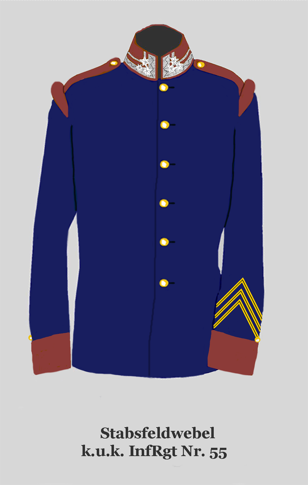 1st Sergeant of the k.u.k. german 55th Infantry Regiment (Collar red-brown, buttons yellow - more tha 9 years in service)